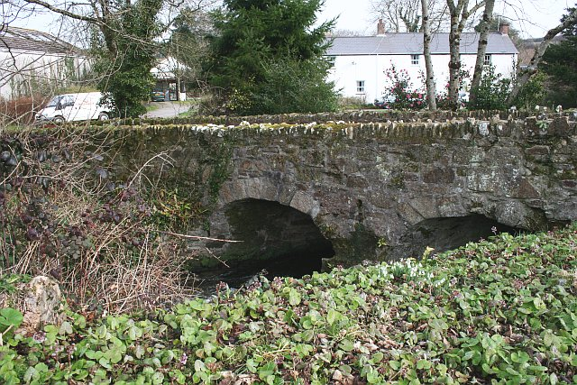 The Old Bridge at Kestle Mill. The modern A road (A308) takes a rather wider bridge over this stream.